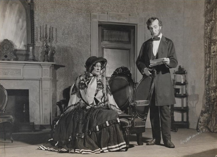 Jennie Eustace & Frank McGlynn in the Broadway's play Abraham Lincoln - publicity still (cropped)